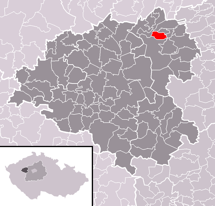 Location of Kalivody municipality within Rakovník District and (identical) administrative area of Rakovník as a Municipality with Extended Competence.